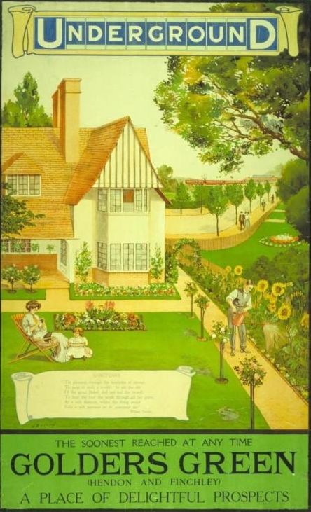 "Golders Green" a poster from the Underground Electric Railways Company of London (UERL) advertising the benefits of living in Golders Green, the northern terminus of the recently opened Charing Cross, Euston and Hampstead Railway. Original size: 610mm wide, 1000mm high.